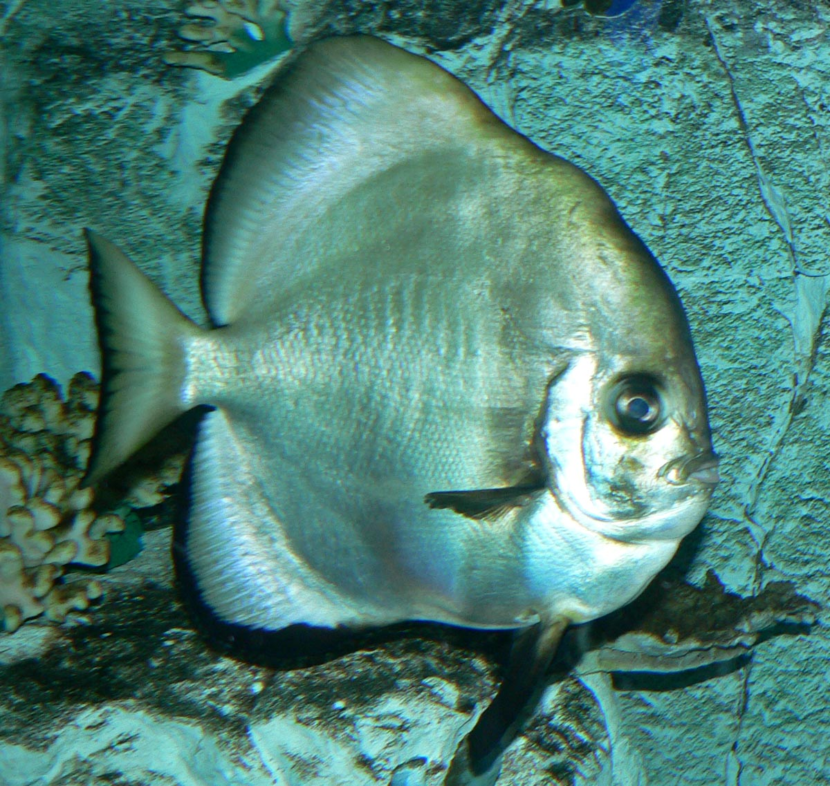 Photo of Platax teira at the Birch Aquarium in San Diego